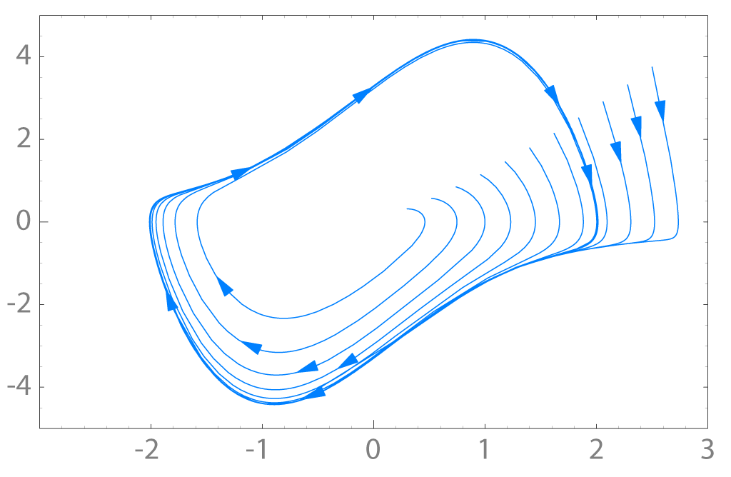 Van de Pol phase portrait. Created with Mathematica and touched up with Illustrator.